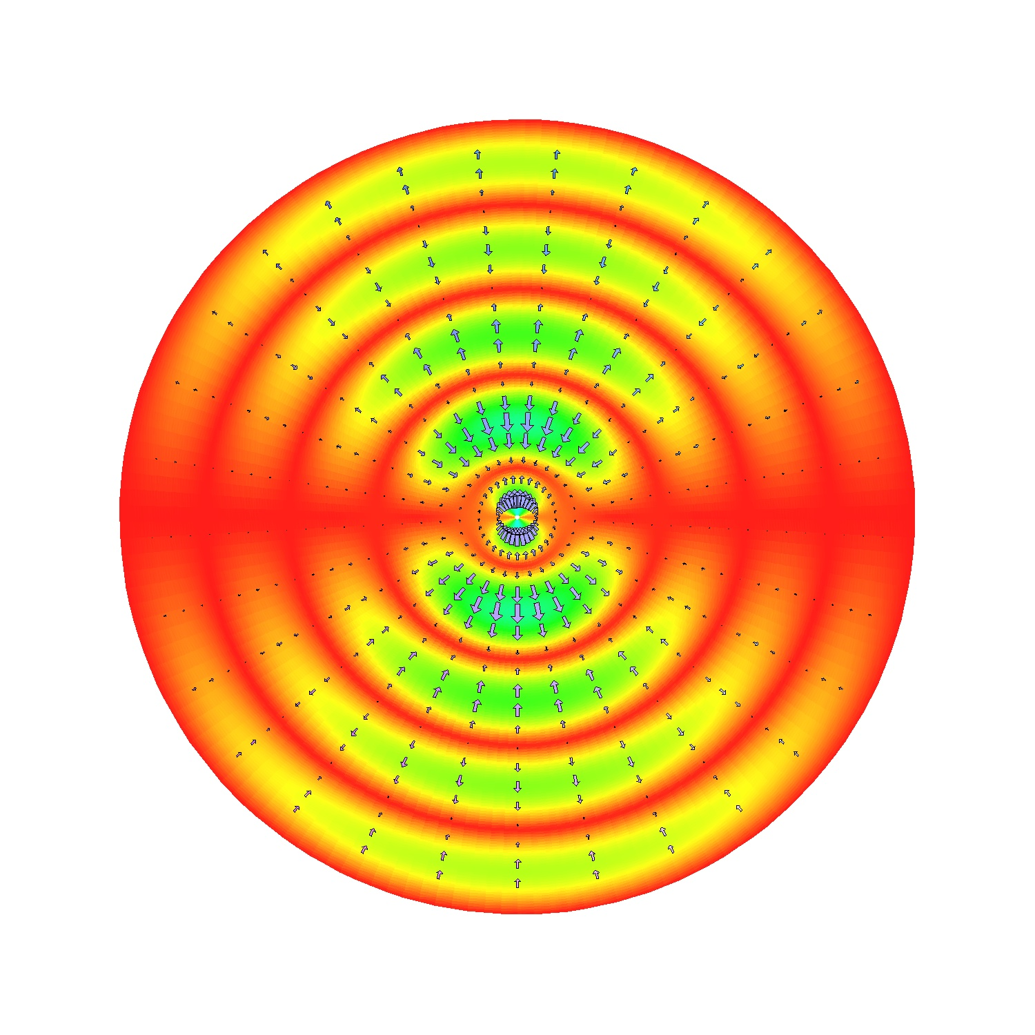 Plot of E and H fields on the TEnl mode defined by n and l.